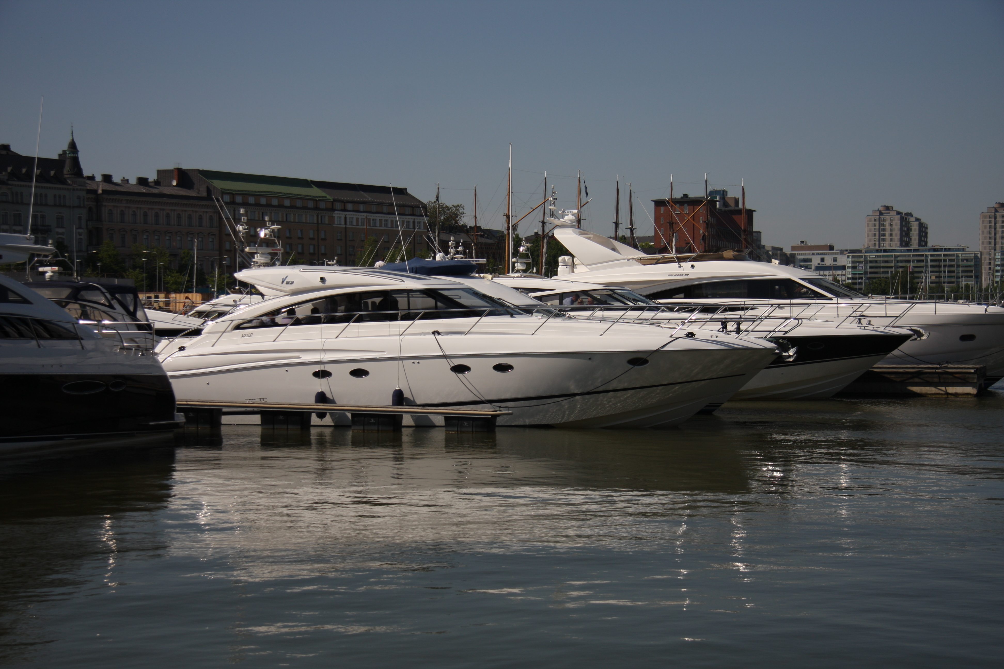 Powerboats at the docks in Katajanokka, Helsinki, Finland.